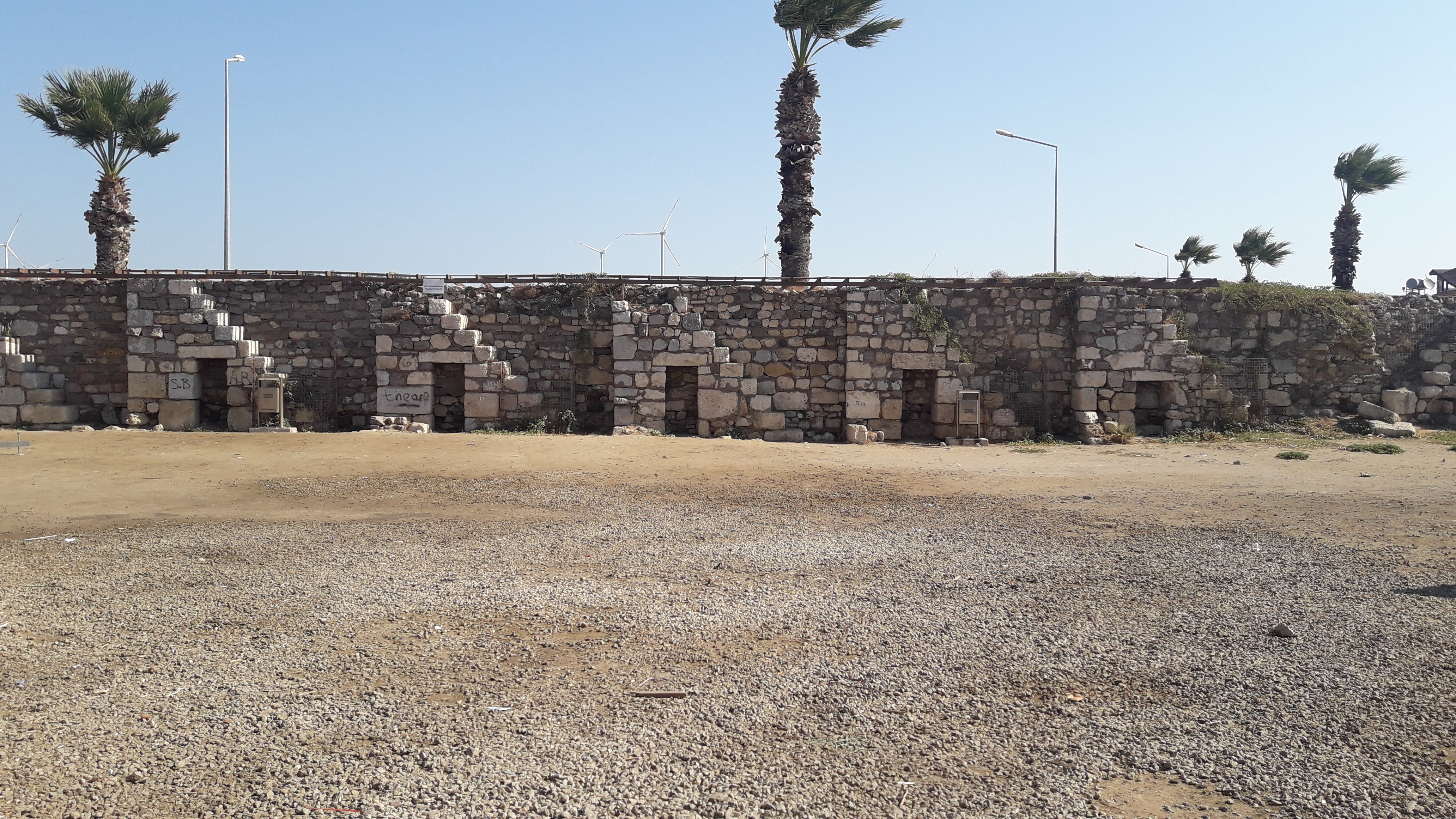 Ottoman Castle in Sığacık, Seferihisar, İzmir Province, Turkey